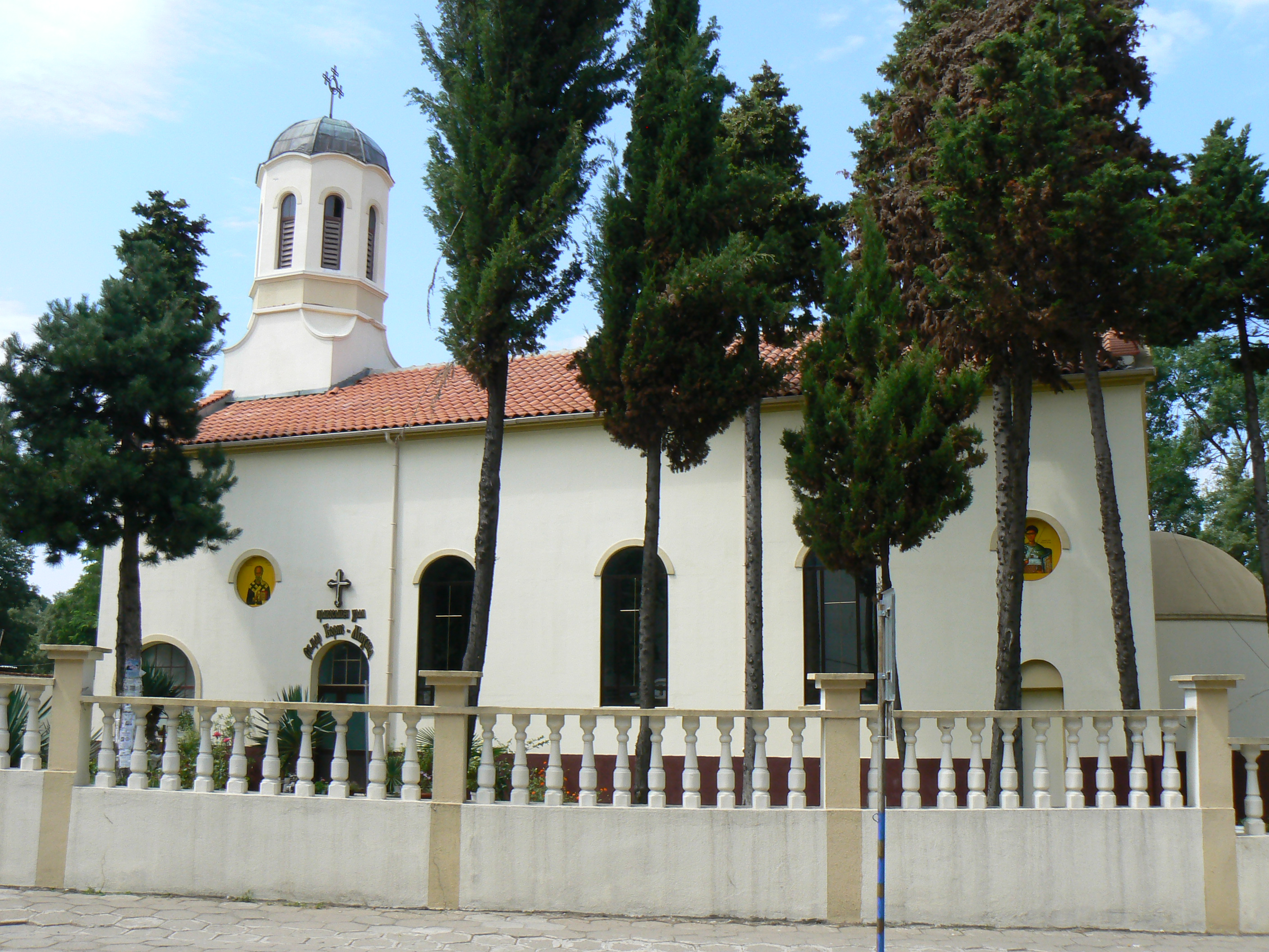 Church "St. Tzar Boris Mihail" in the town of Tsarevo, Bulgaria